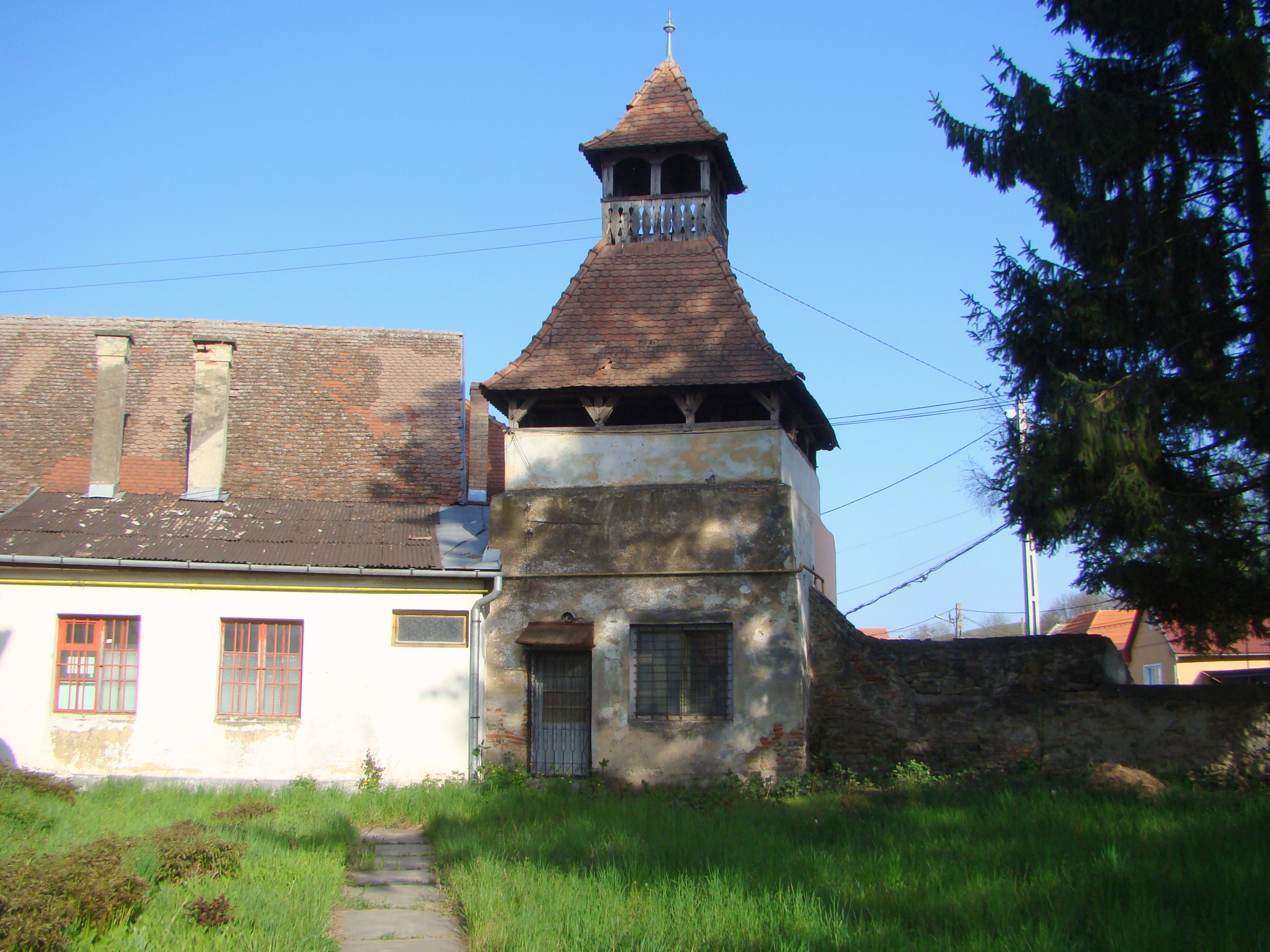 Lutheran church in Daneș, Mureș county, Romania